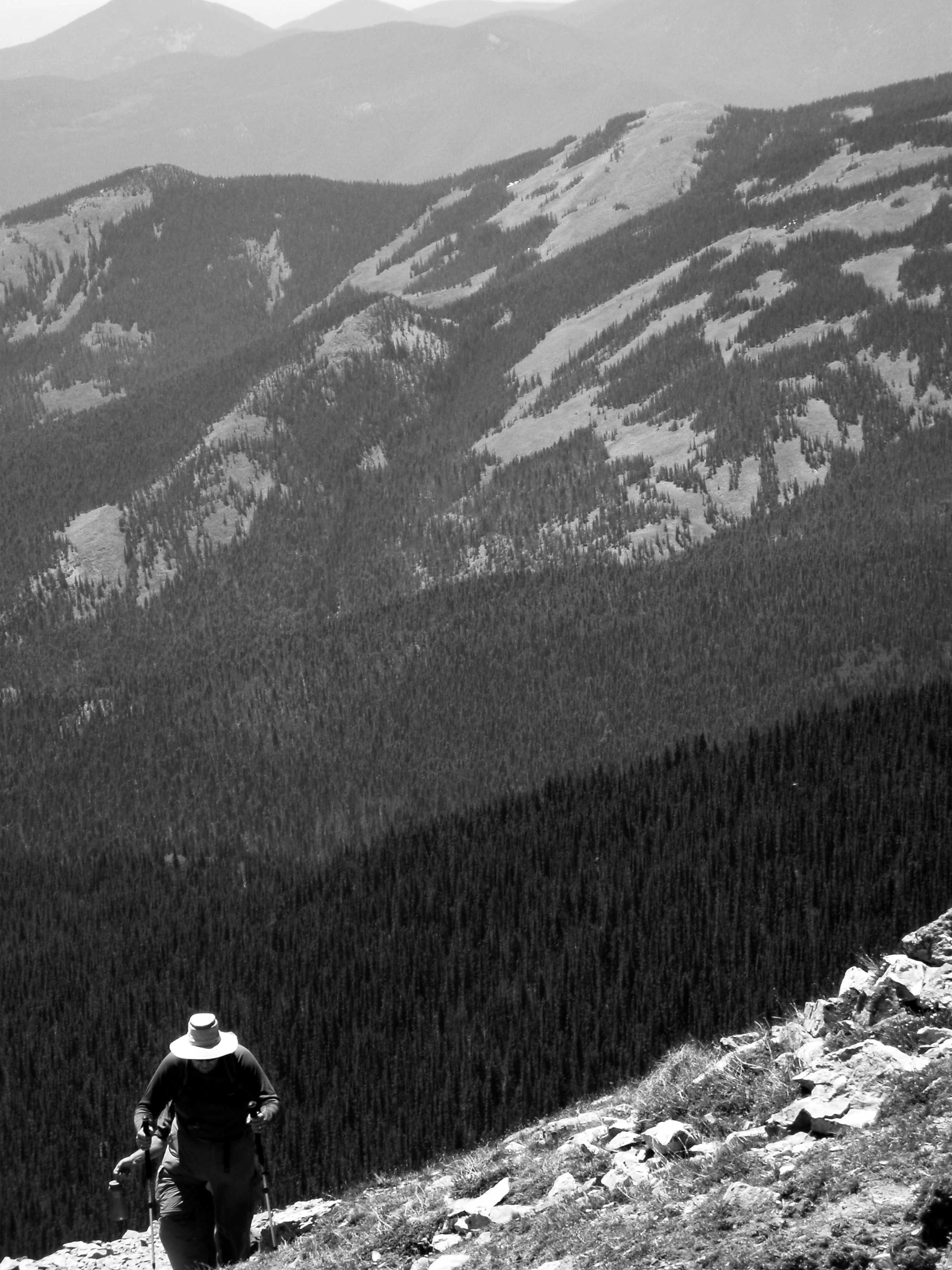 Hikers climbing to the summit of Mount Baldy at Philmont Scout Ranch.